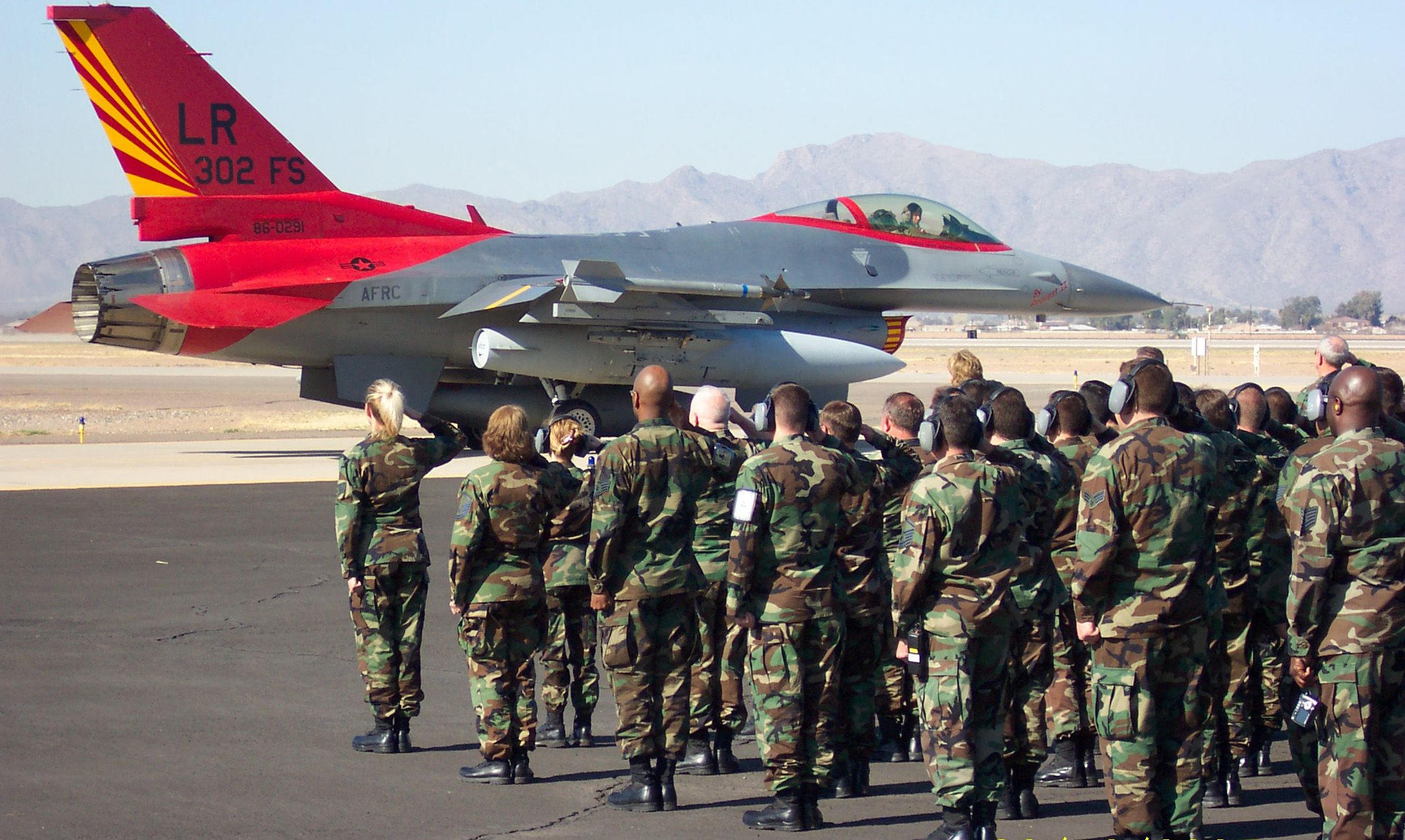 Members of the 944th Fighter Wing salute as Lt. Col. Donald Lindberg, 302nd Fighter Squadron commander, taxis to the runway Feb. 12, 2007, to depart for Nellis Air Force Base, Nev. The 302nd Fighter Squadron, which traces its roots to the Tuskegee Airmen, will be inactivated at Luke AFB but will return to the Air Force Reserve Command when it stands up as an F-22 associate unit at Elmendorf AFB, Alaska. (U.S. Air Force photo/Bryce Watson)